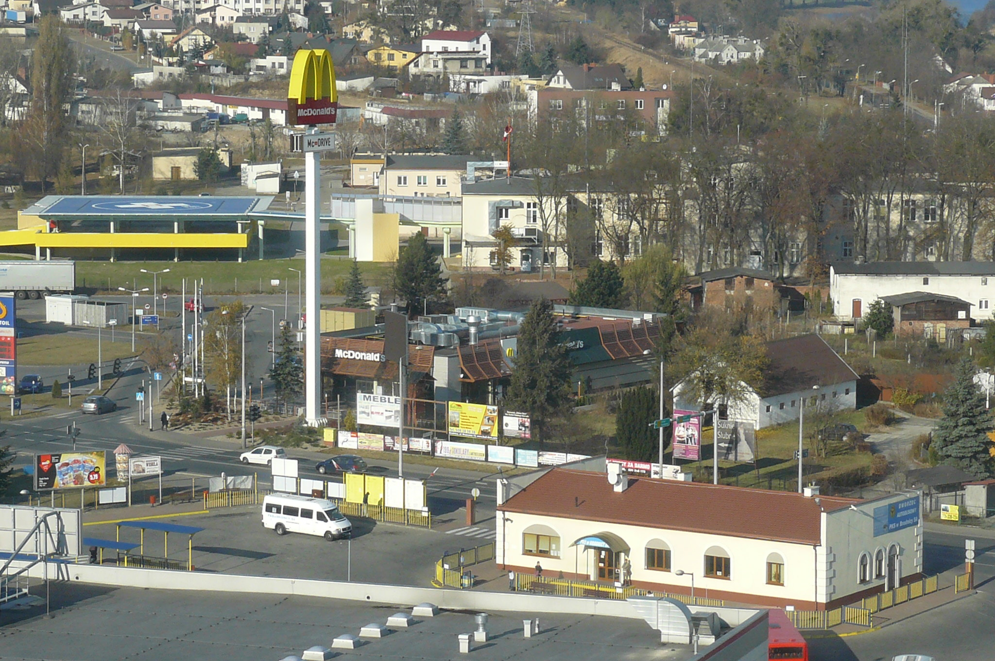 Brodnica. Bus station and McDonalds. View from the castle tower.